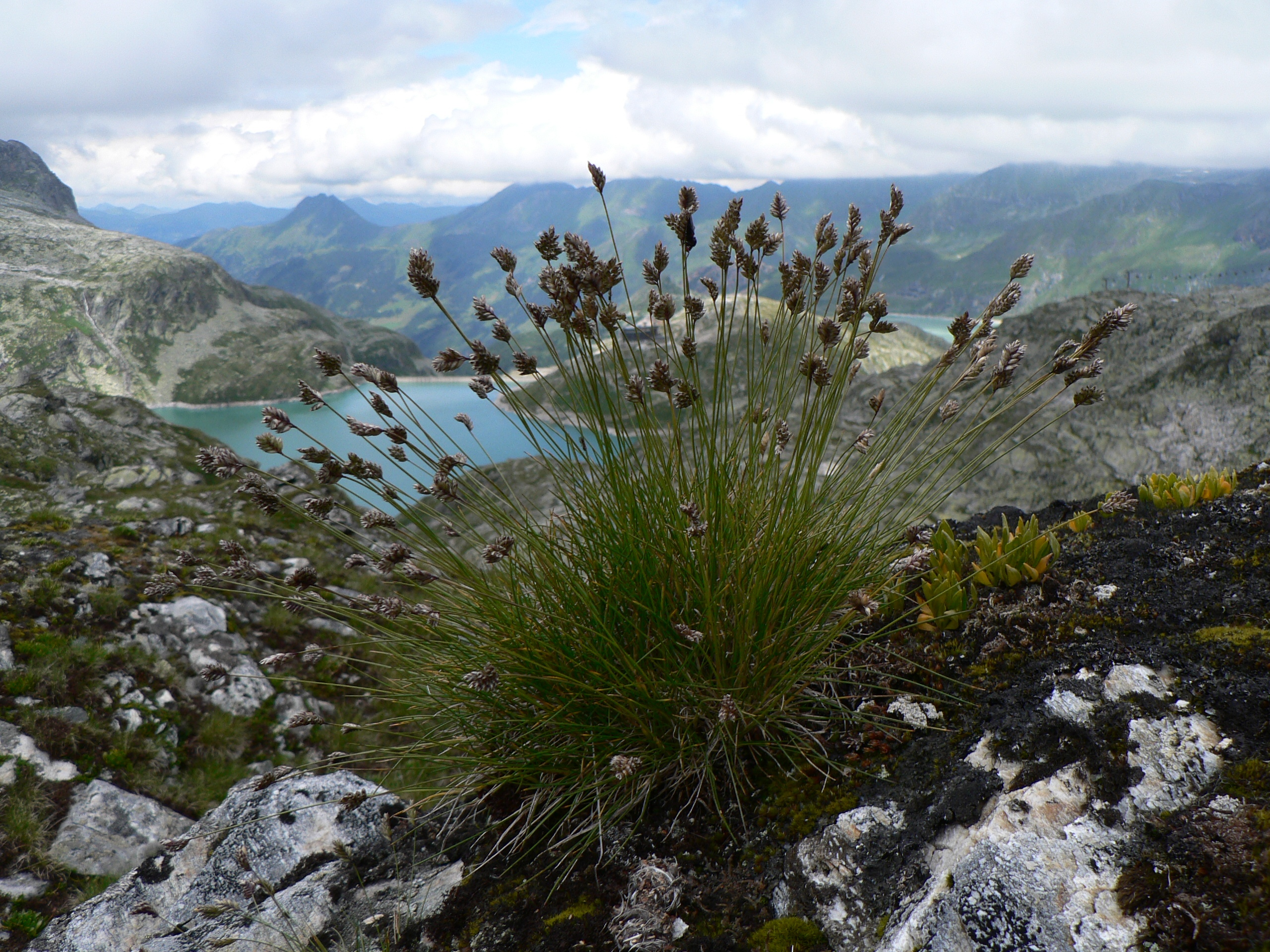 Oreochloa disticha in Kalser Tauern, Hohe Tauern, Austria.